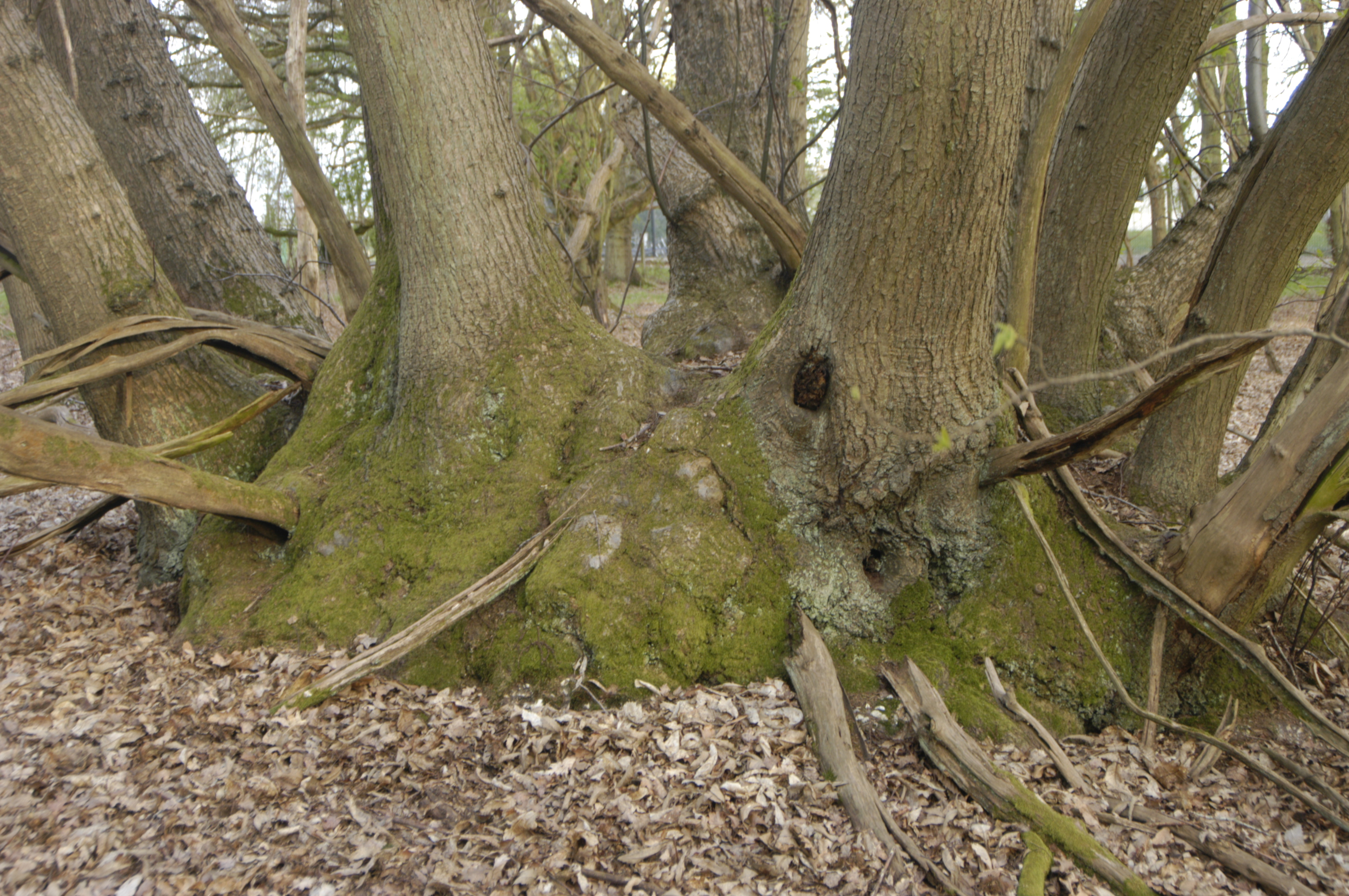 Vintage pollard sweet chestnut then coppice stool in western Berkshire's Aldermaston court's derelict wood pasture, April 2017.